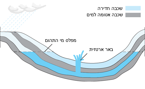 An Artesian aquifer, with legend in Hebrew.